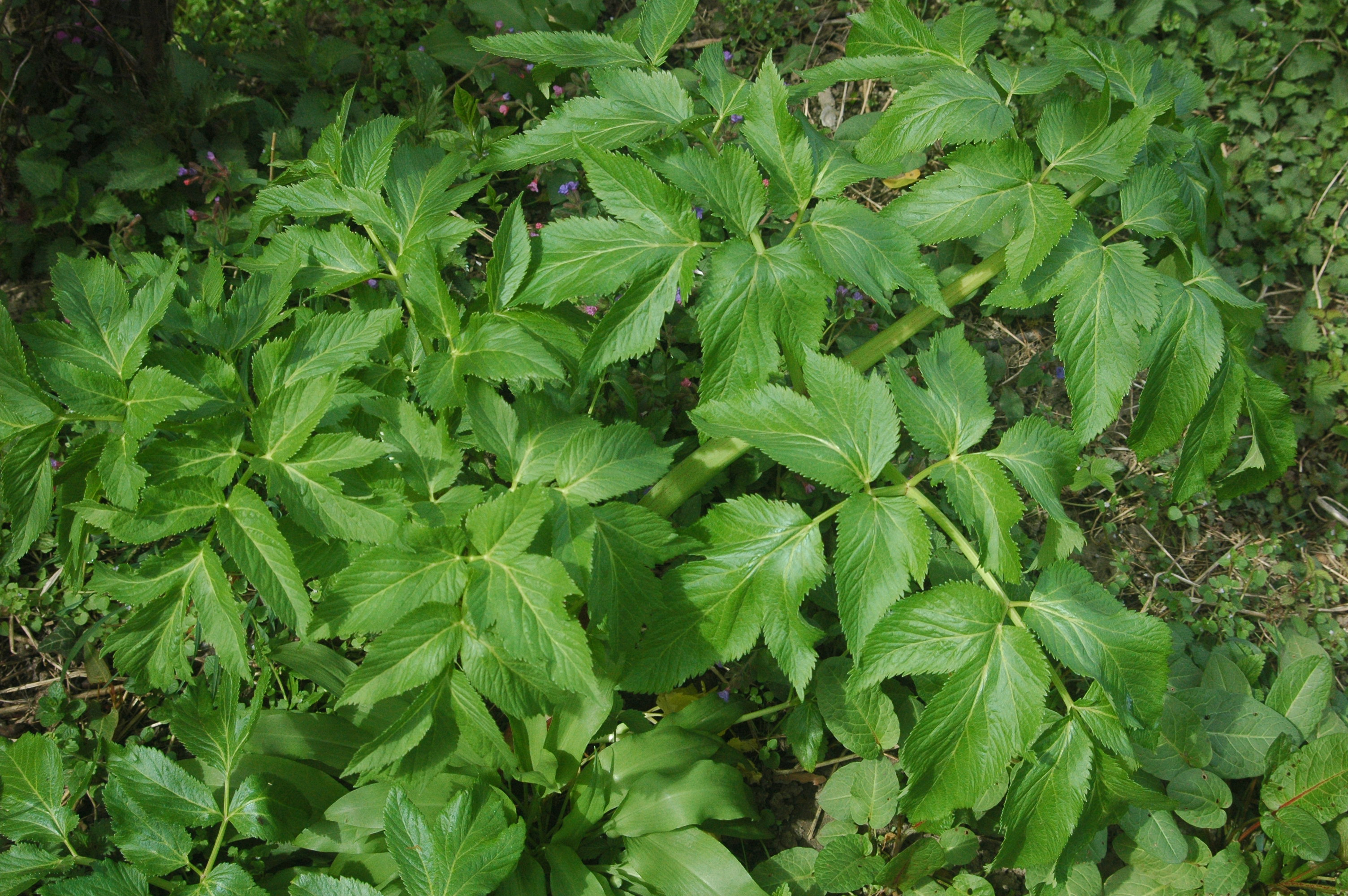 Angelica archangelica, leaves. Note also Allium ursinum below. Location: Letničie, western Slovakia